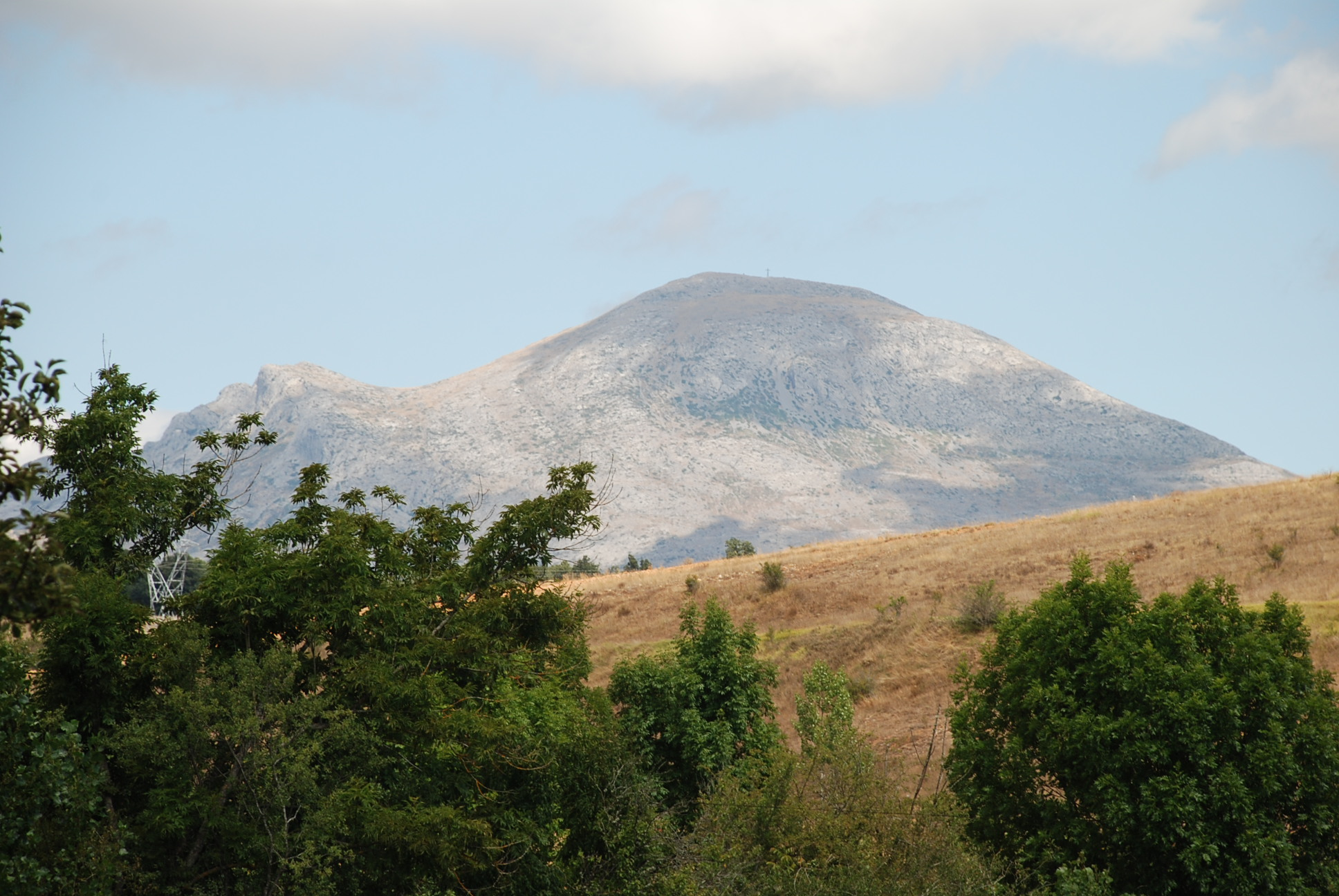 Villalbeto de la Peña (Palencia, Castile and León).